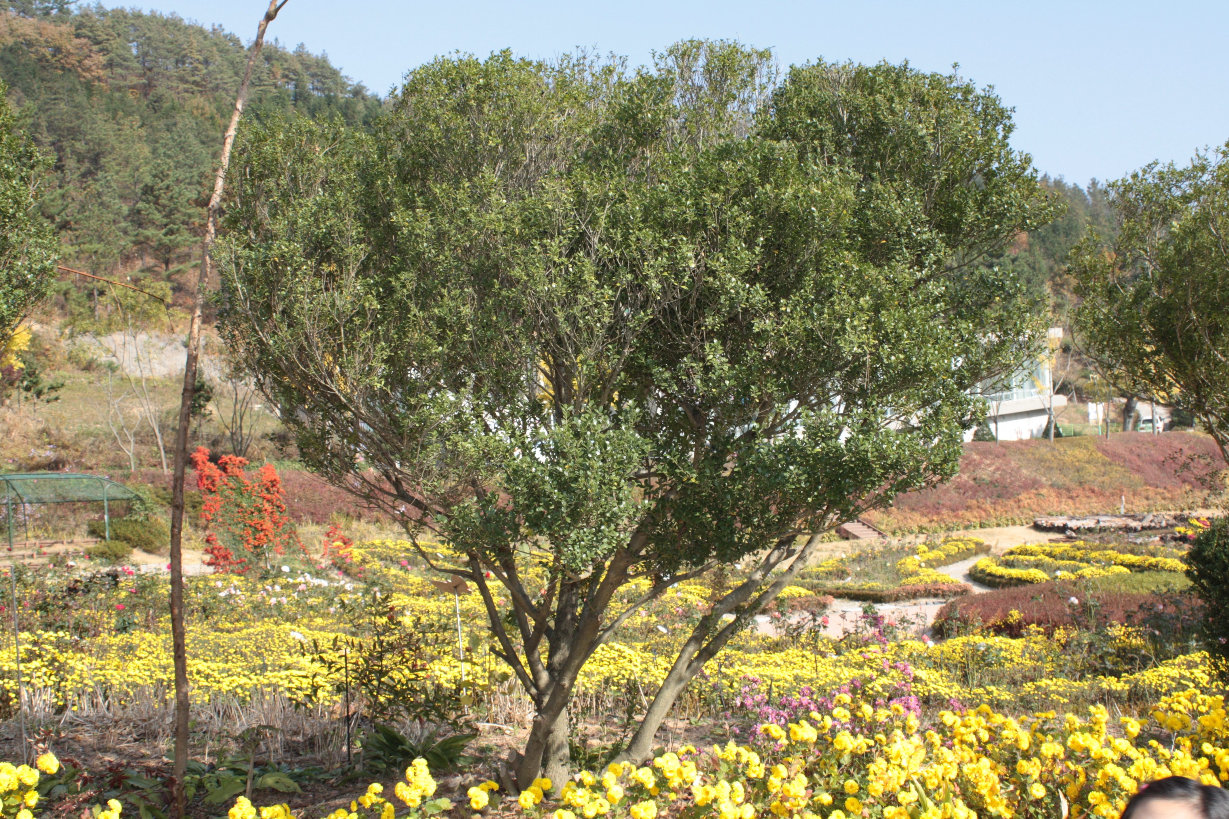 Ilex crenata in Hampyung, Korea